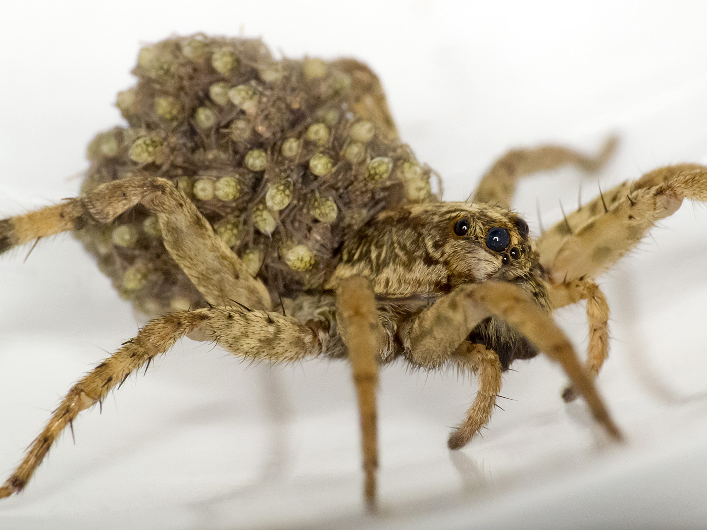 Wolf Spider (Rhabidosa rabida) with babies on back